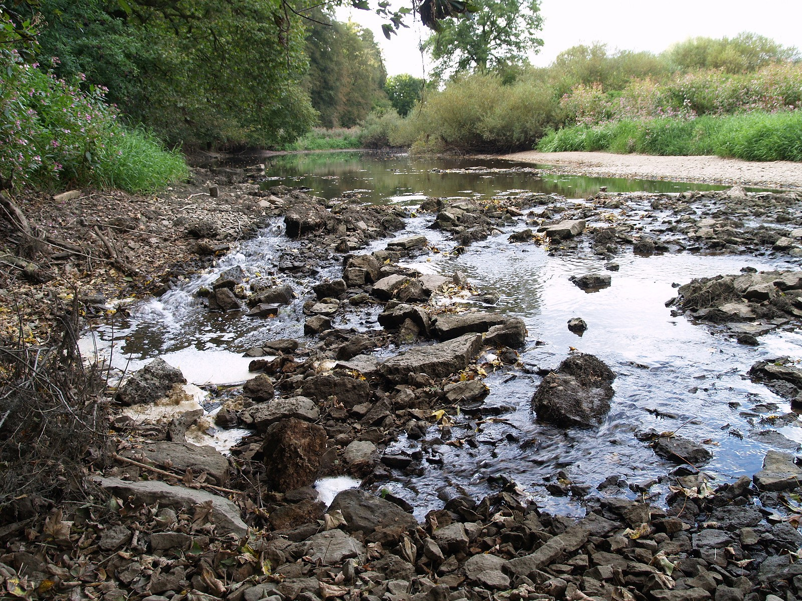 Ponor of the Danube sink, near Immendingen, Germany